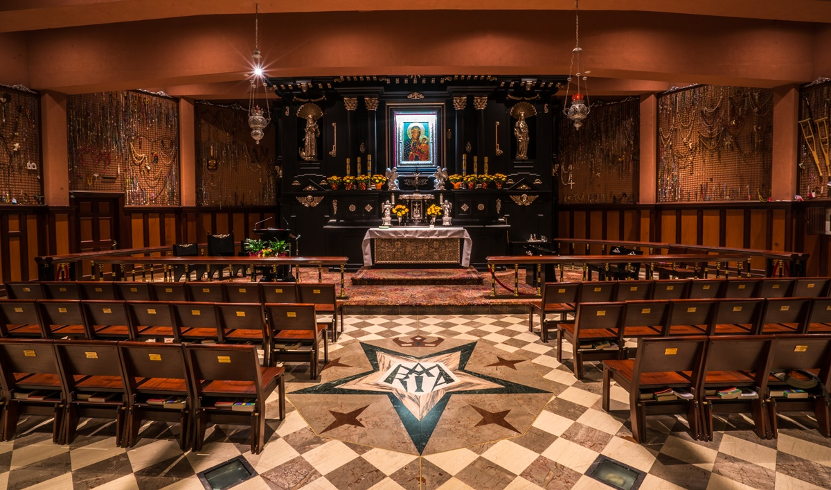 Shrine of Our Lady of Czestochowa (Doylestown, PA) - Our Lady of Czestochowa Chapel 1